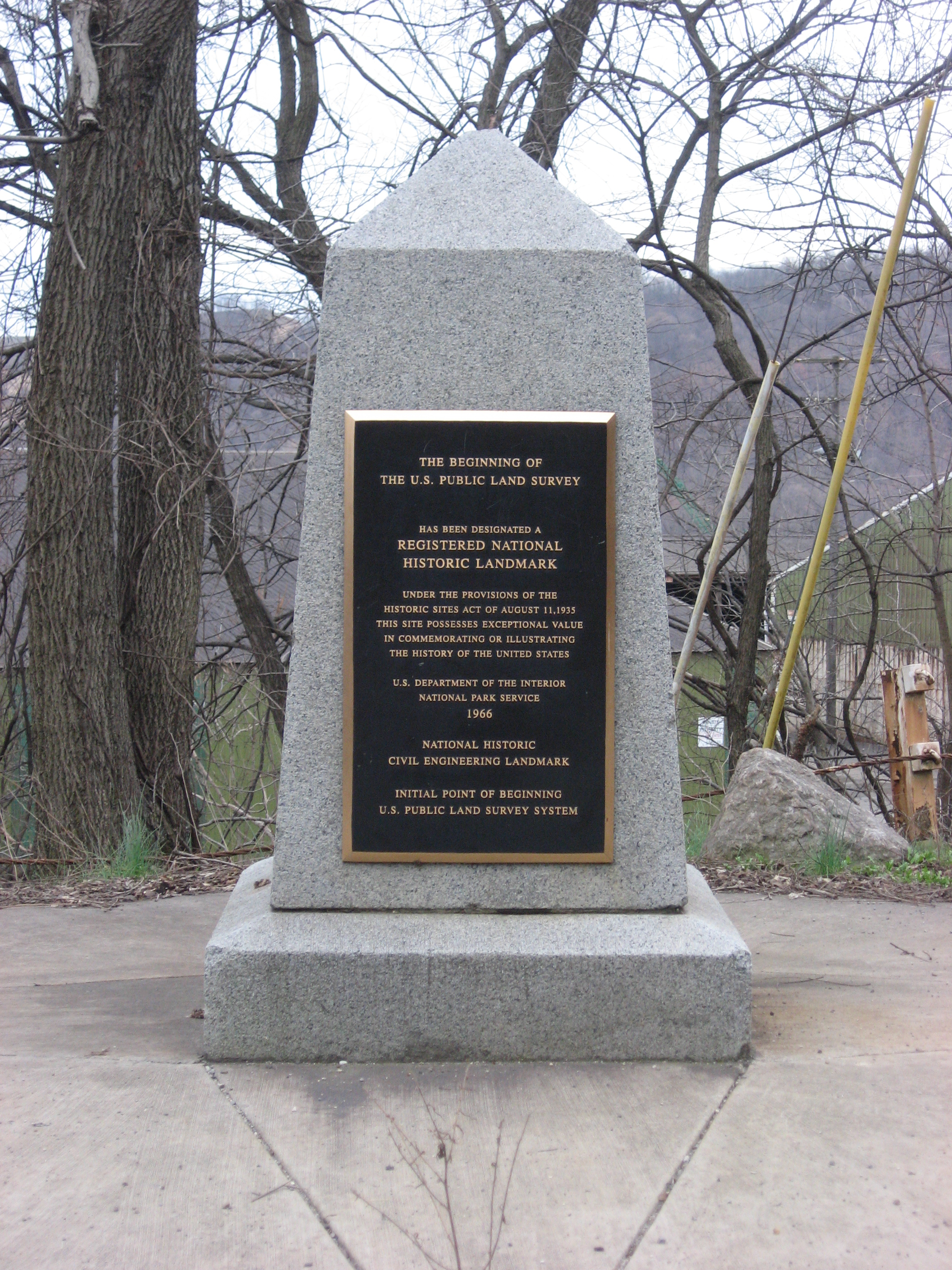 Streetside view of the Beginning Point of the U.S. Public Land Survey, a monument marking the site that served as the basis for the entire Public Land Survey System — the system by which most of the United States, outside of the original colonies, was surveyed. Located on the Ohio/Pennsylvania border east of downtown East Liverpool, Ohio, it is split between the city of East Liverpool and the borough of Ohioville in Beaver County, Pennsylvania. Erected in 1881 by a joint commission of Ohio and Pennsylvania surveyors, the monument was declared a National Historic Landmark in 1966. The road on which it lies is Ohio State Route 39 and Pennsylvania Route 68.